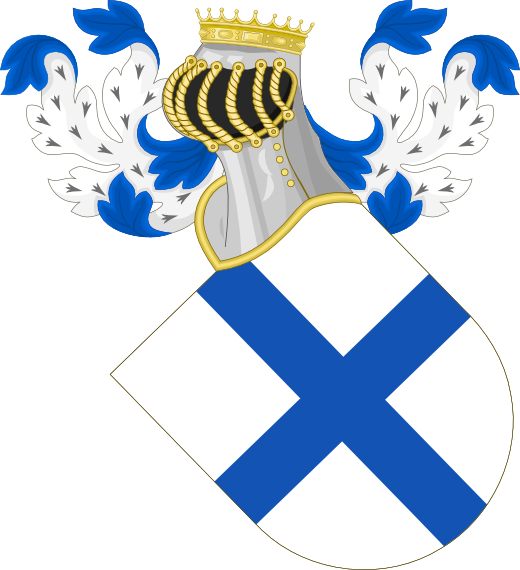 Coat of Arms of D. Henry of Burgundy, Count of Portugal